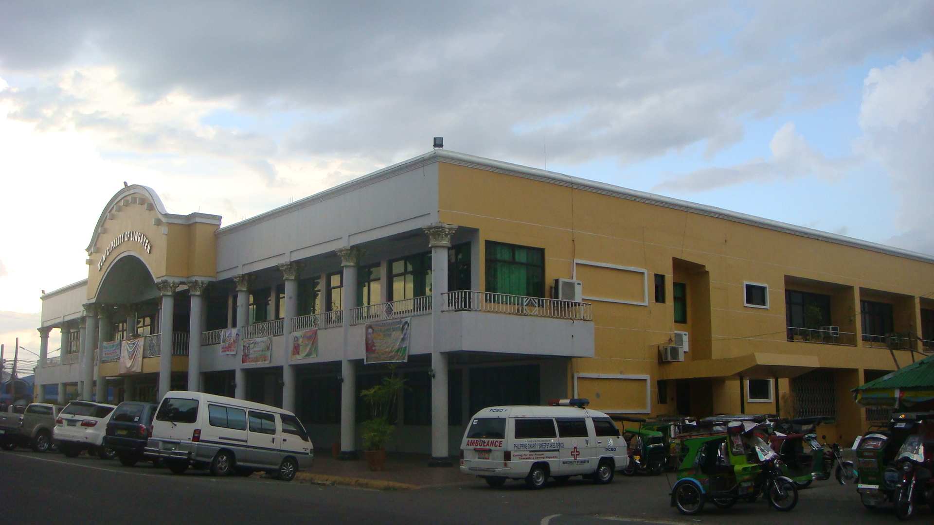 Welcome sign of Provincial Capitol of Pangasinan - Pangasinan Capitol Complex Pangasinan Provincial Capitol Poblacion, Lingayen, Pangasinan DepED Schools Division Office I of Pangasinan Lingayen Malong Building 1958 TESDA Pangasinan Provincial Office - Training Center Urduja House Urduja House Pangasinan Provincial Capitol Building 2019 part of the Pangasinan Capitol Complex built 1918 by Ralph Harrington Doane under Governor Daniel Maramba reconstructed 1949 Declared 1 of 8 Architectural treasures of the Philippines by the NCCA restored in 2008 Veterans Memorial Park Lingayen Gulf Landings Shrine Finance Building Palaris Building Aguedo F. Agbayani Park along Alvear Street 16°1'49"N 120°13'41"E Maramba Boulevard (Lingayen) 16°1'36"N 120°14'2"E Daniel Maramba Aguedo Agbayani Governor of Pangasinan Amado Espino Jr. Amado Espino III Aguedo F. Agbayani monument, Lingayen Aguedo F. Agbayani Park; Landmarks include Governor Daniel Maramba Park Veterans Memorial Park Sison Auditorium FVR Ancestral House Aguedo F. Agbayani Park Lingayen Beach Capitol Resort Hotel and Urduja House; Capitol Building Malong Building Finance Building and Kalantiao Building Category:Sitios and puroks of the Philippines Subdivisions of the Philippines List of barangays in Pangasinan, Barangays of Pangasinan, Barangay Poblacion, Lingayen, Pangasinan 16.0277, 120.2330 Lingayen Pangasinan Province from Judge De Venecia, Sr. Avenue Road (Dagupan City) to Judge De Venecia, Sr. Avenue Extension 16°2'32"N 120°19'37"E from or along Urdaneta Junction-Dagupan-Lingayen Road MacArthur Highway or Manila North Road) surrounded by the Agno Valley of Agno River Philippine highway network Municipal Town Hall